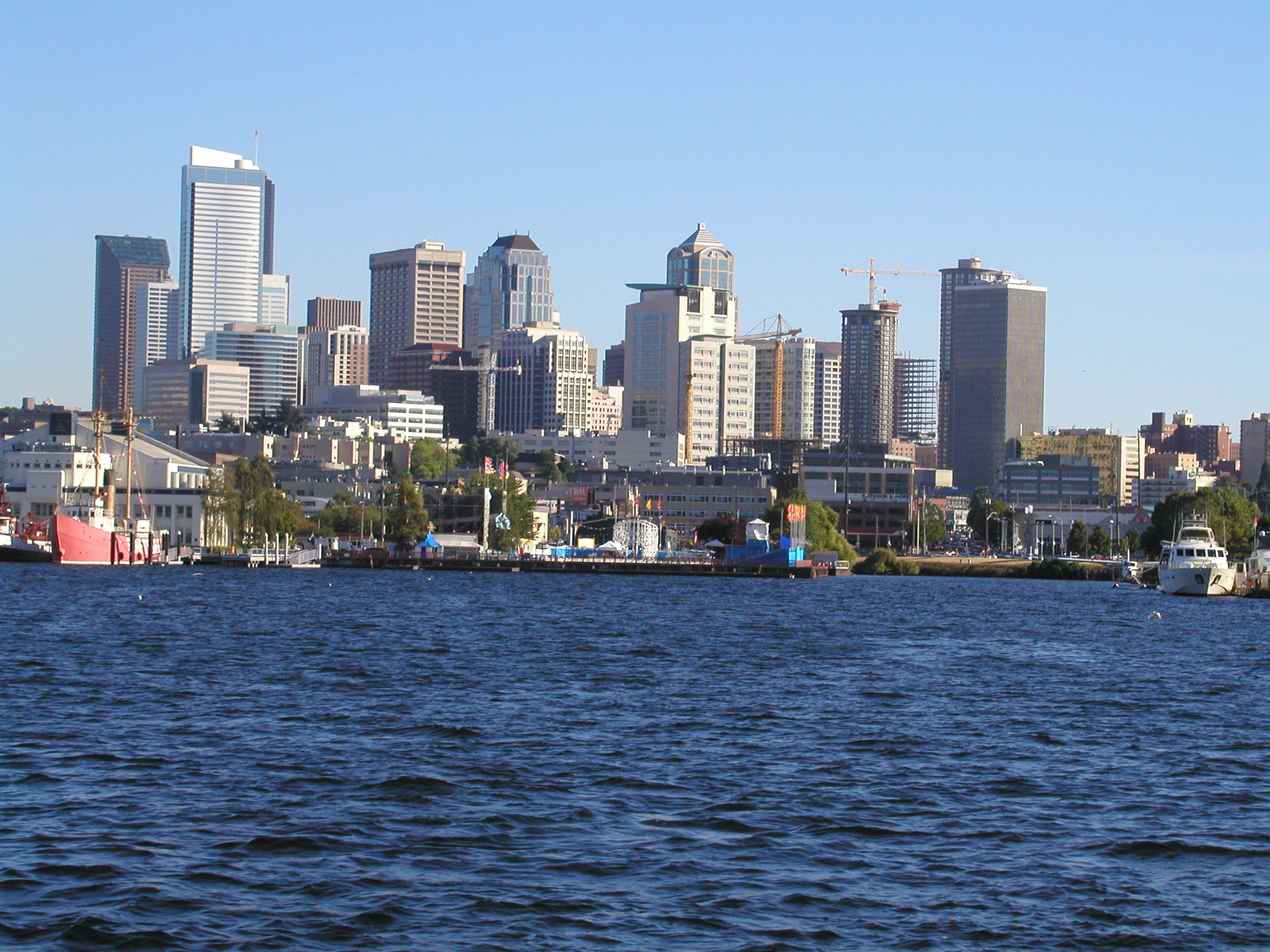 The Seattle Skyline as seen from Lake Union.